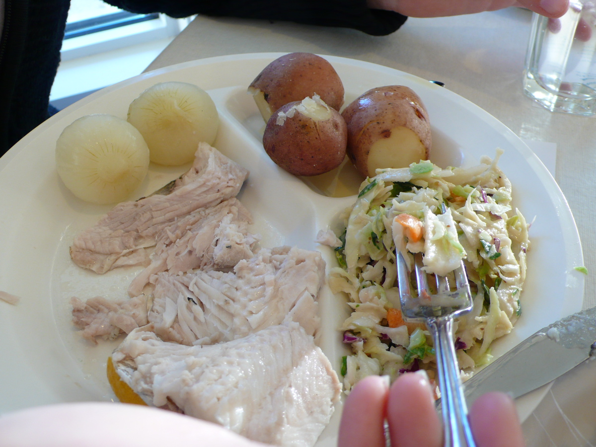 Traditional Fish Boil Platter of Door County, Wisconsin, United States.